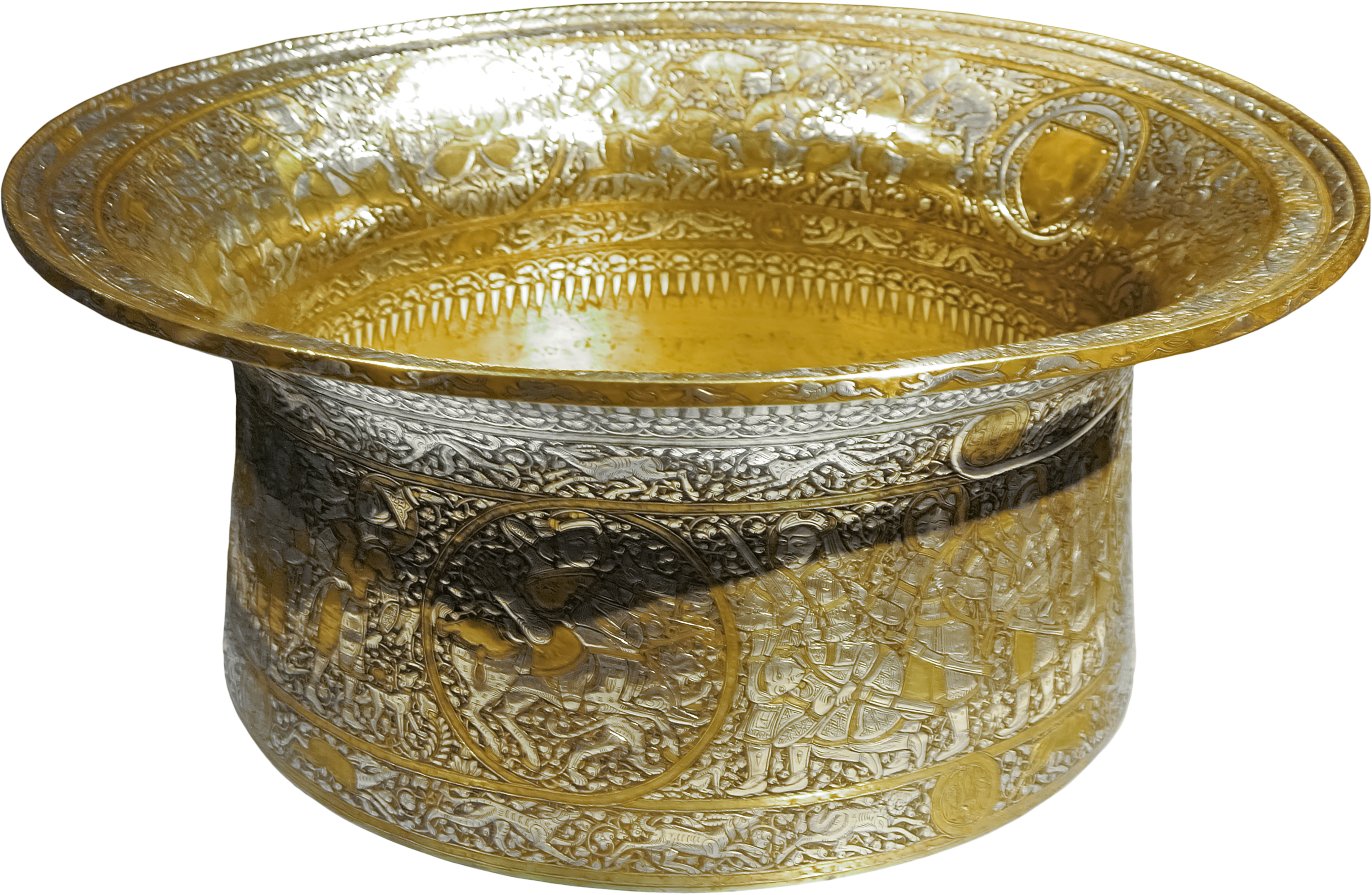 "Baptistère de saint Louis", at the louvre museum